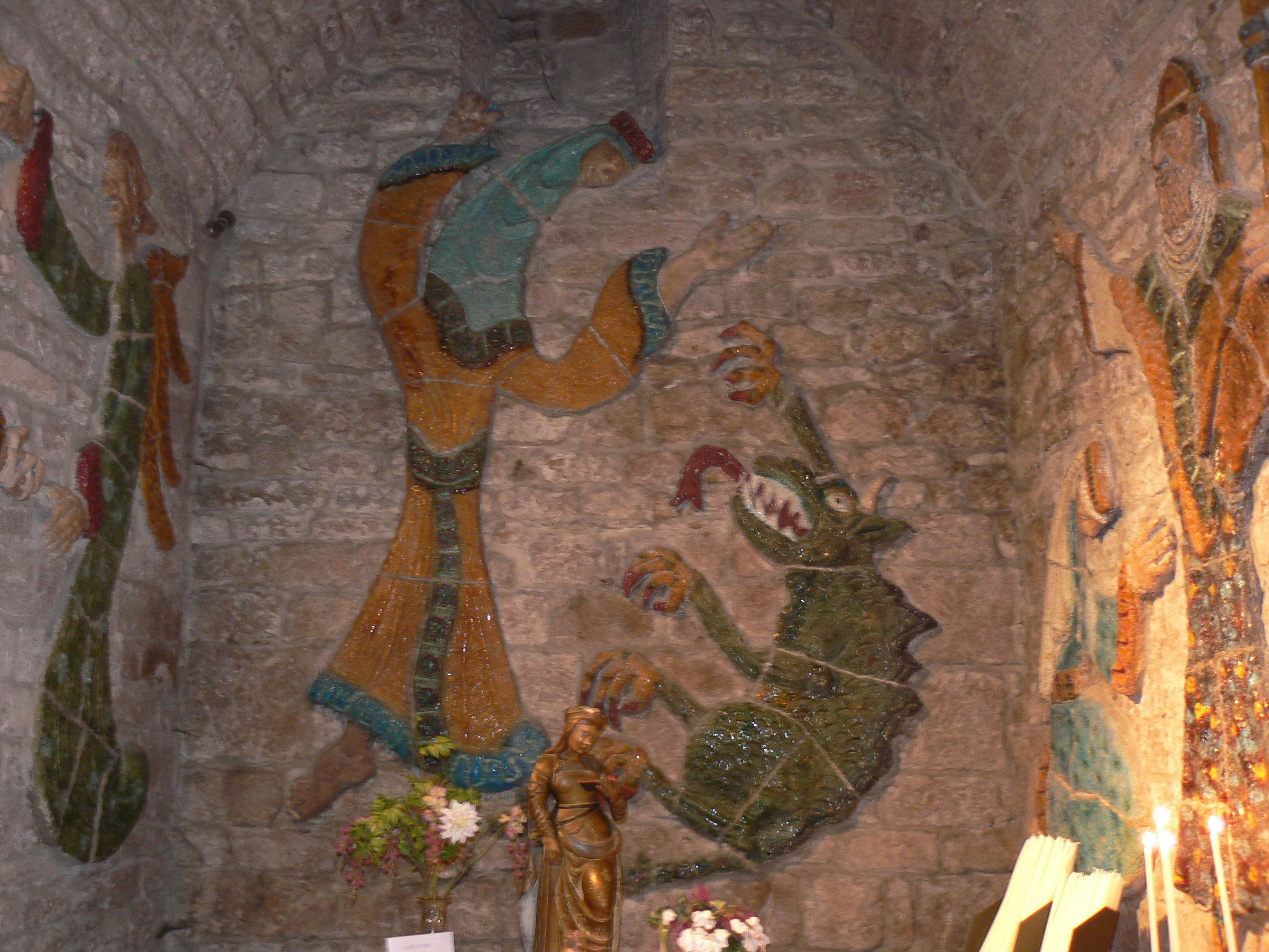 Eglise Notre-Dame-du-Gourg, the church of Sainte-Enimie, Lozère (France)